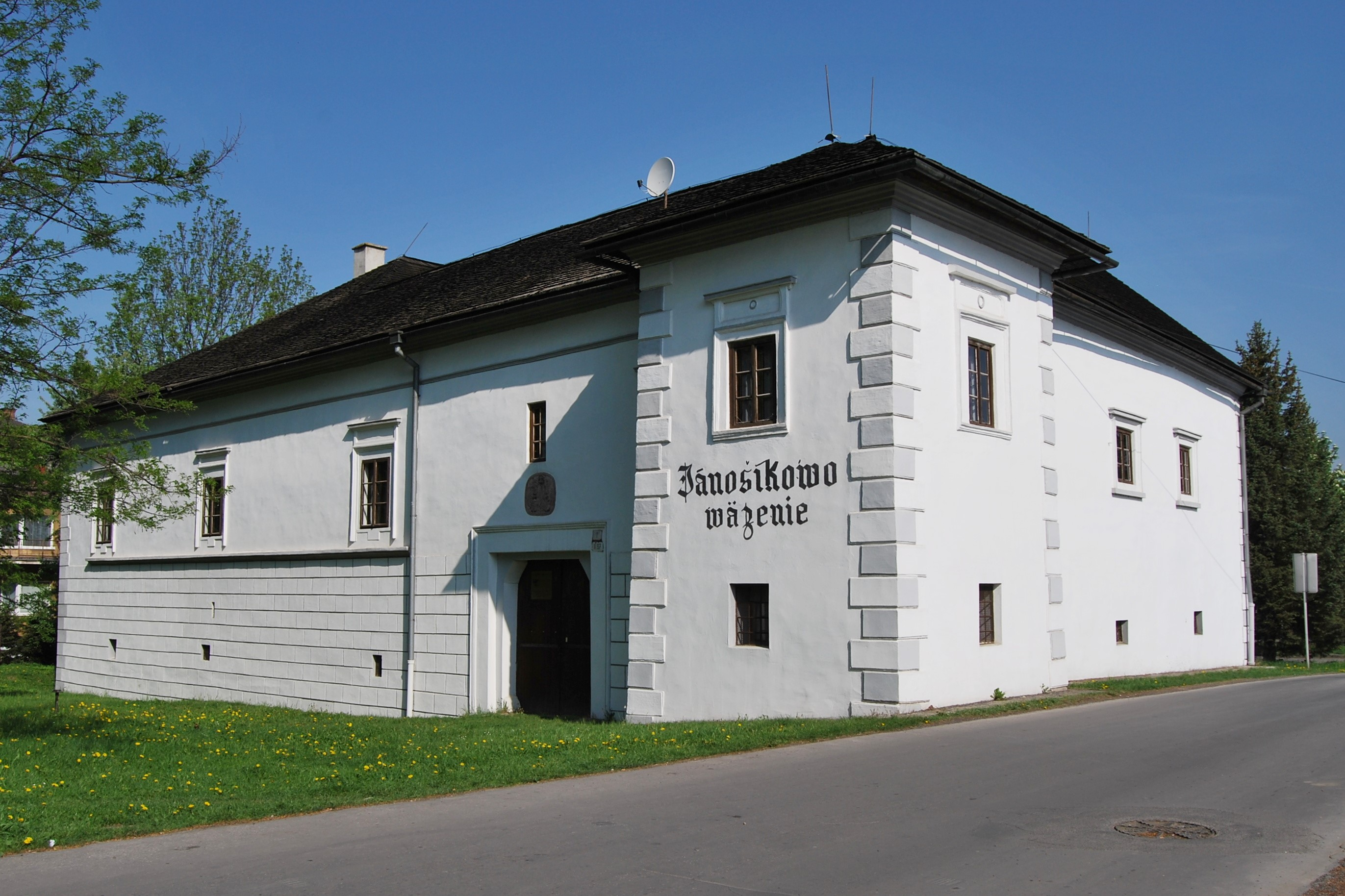 Liptovský Mikuláš, Slovakia - town district of Palúdzka, manor-house Vranovo